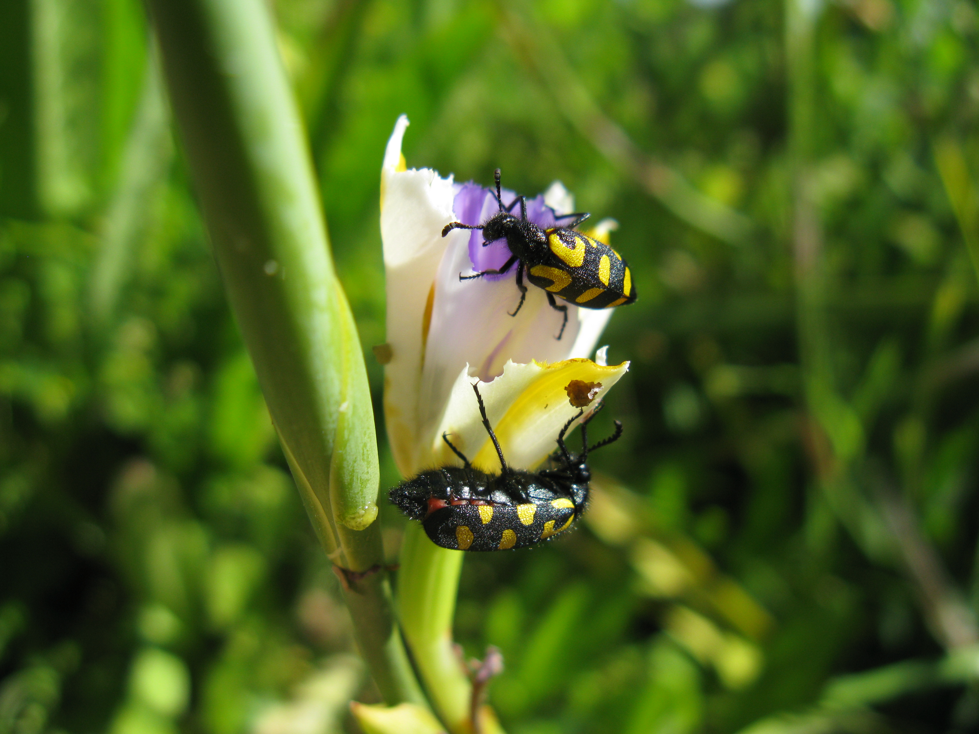 South African Meloid beetles, genus Actenodia. They are eating a flower of a species of Dietes (probably Dietes iridioides).